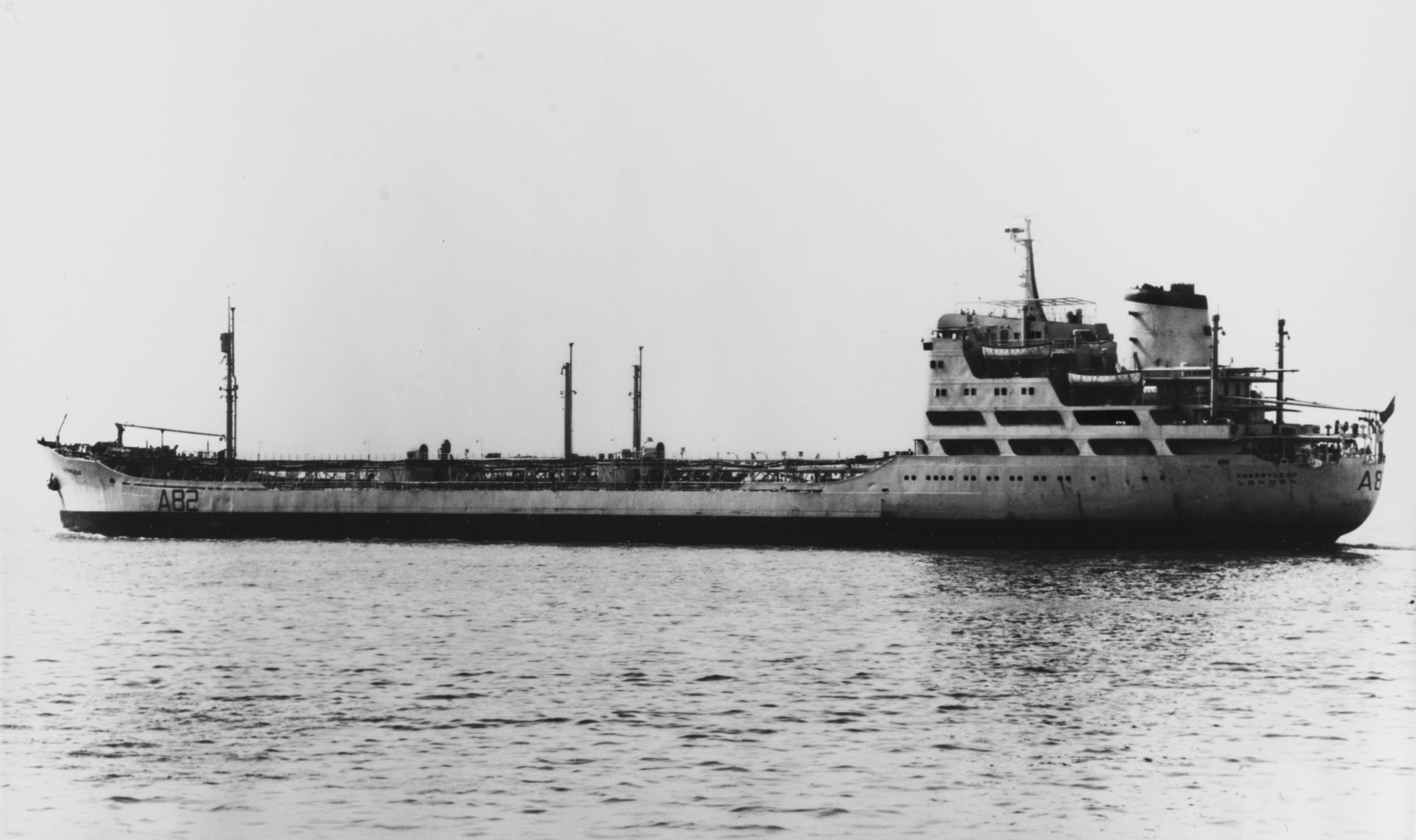 The Royal Navy tanker RFA Cherryleaf (A82) underway at sea in August 1975.